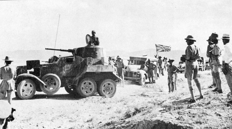 British supply convoy in Iran, headed by Soviet BA-10 armored vehicle. "Union Jack" waving on the background.